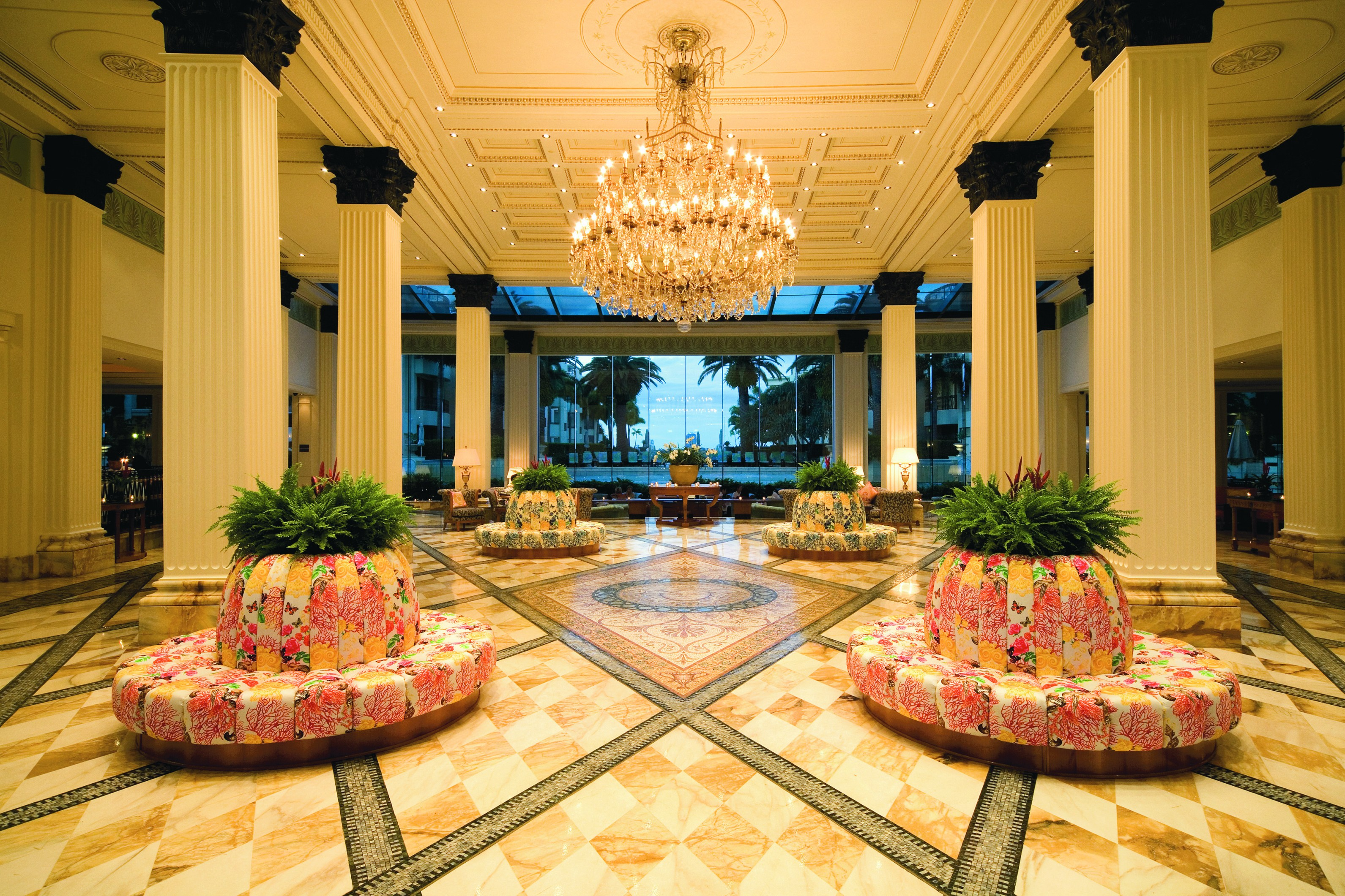 Palazzo Versace Gold Coast Lobby Area